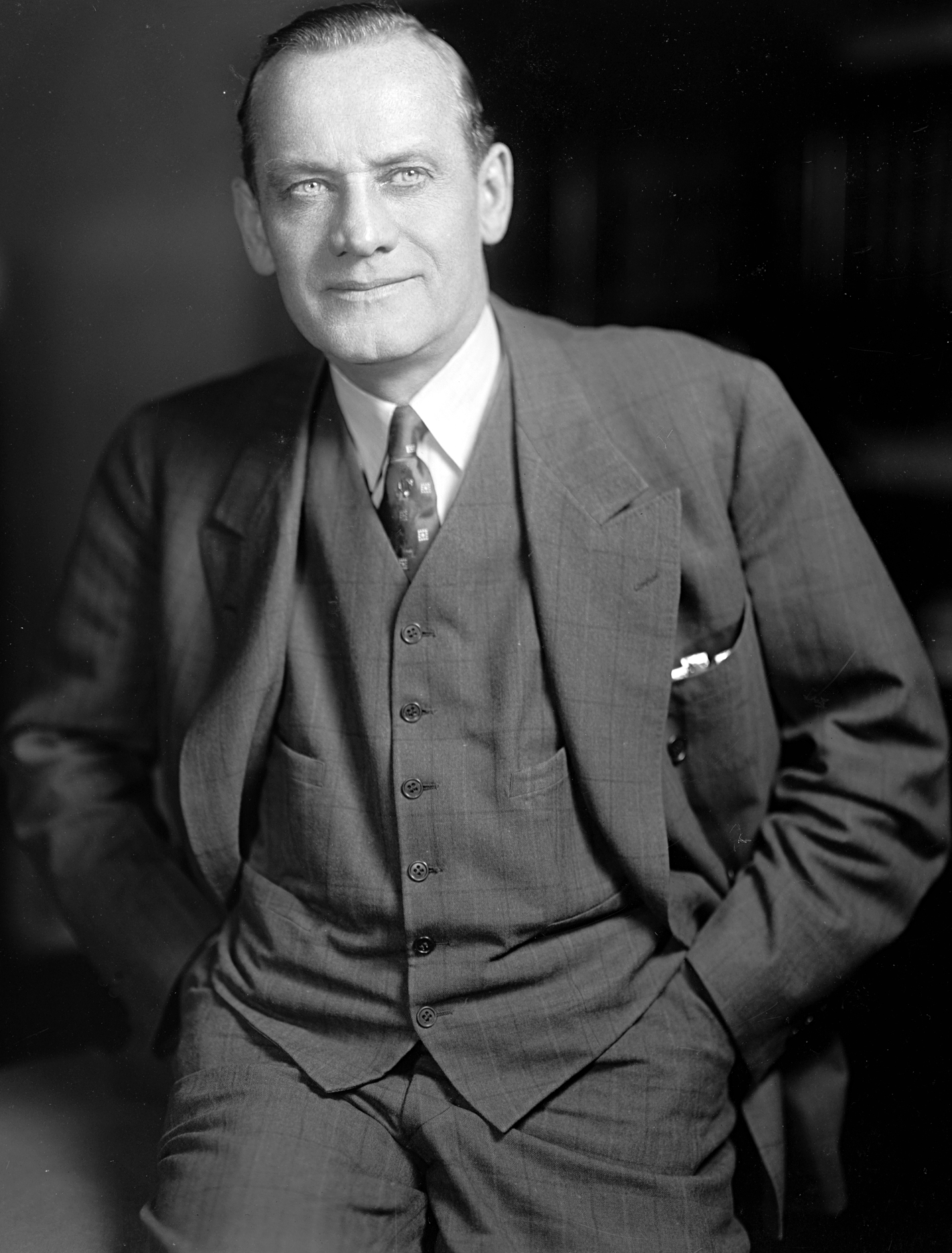 John Lesinski, Sr., US Representative from Michigan